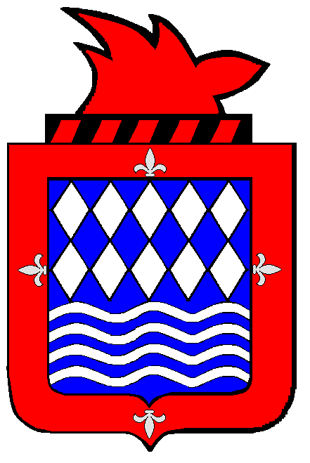 Recreation of the first Coat of Arms of Teresina, capital of Piauí state (XVIII century), Brazil, according to a Brazilian figurative stamp (circa 1930). Emerson